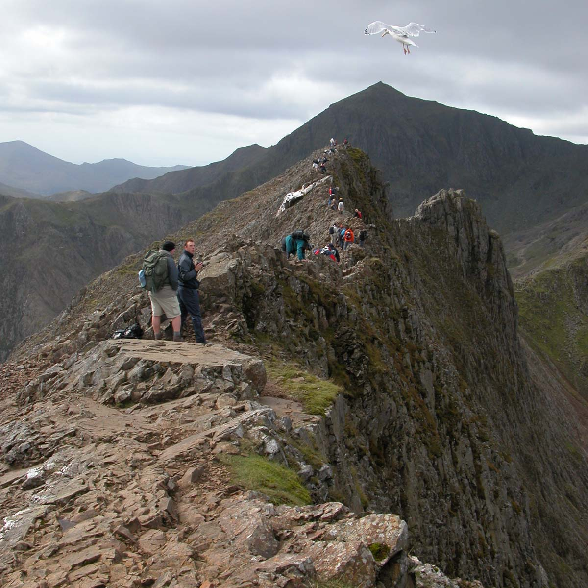 Crib Goch ridge to Snowdon. By Miriam J. Brod, 2005/09.